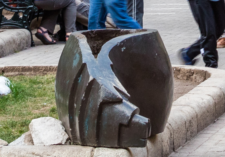 Aguas Calientes, Cuzco, Peru